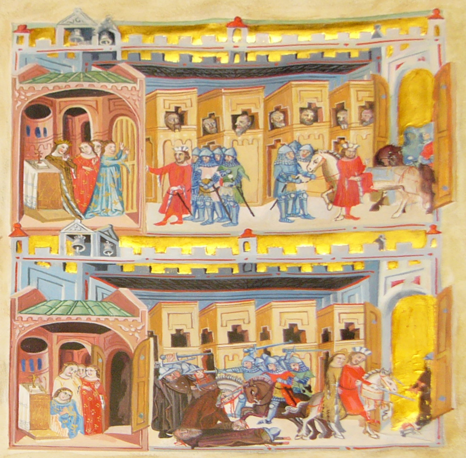 Bretislaus I of Bohemia is kidnapping his wife Judith (Jitka) of Schweinfurt from the monastery. In Chronicle of so called Dalimil.